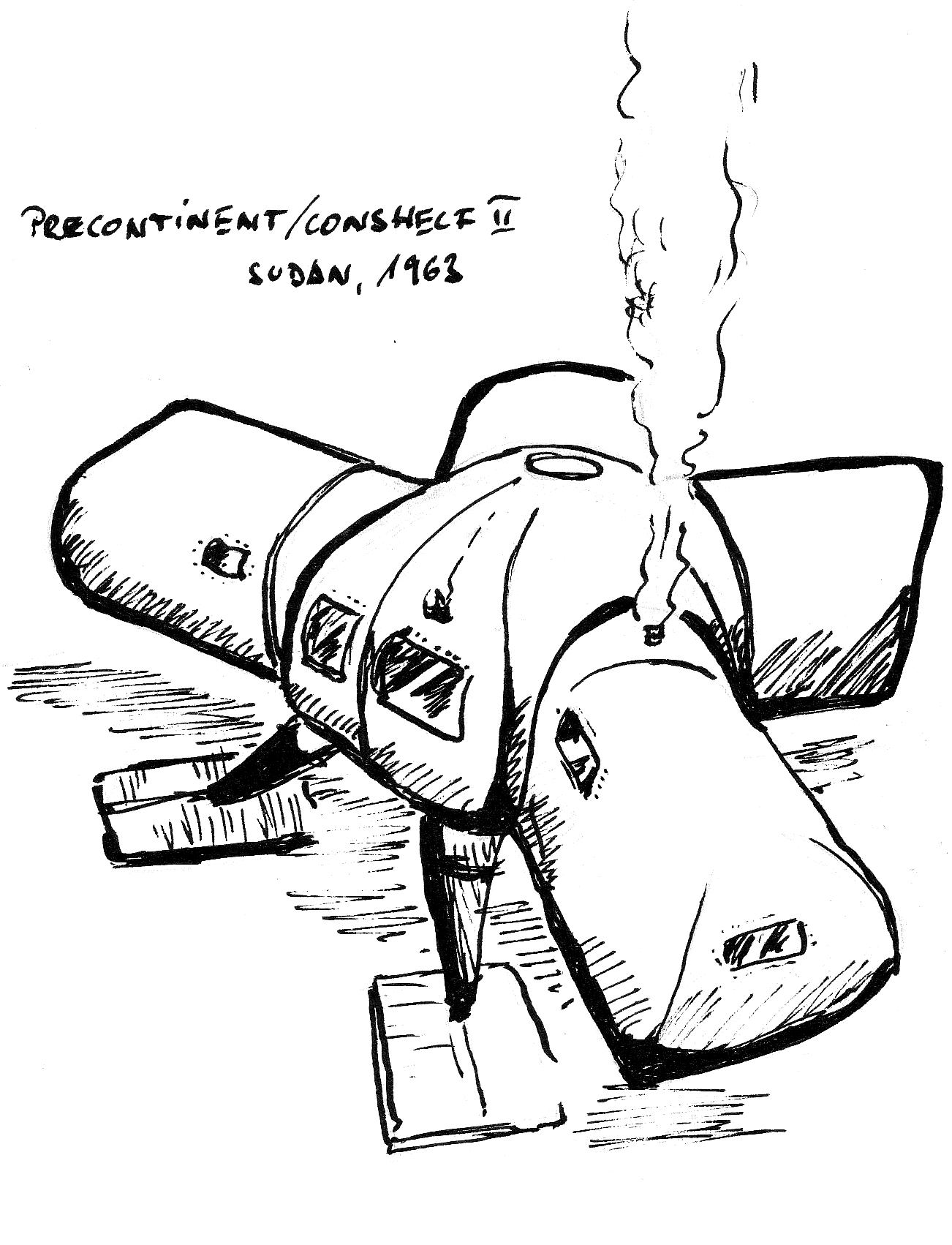 The image shows the Starfish House as part of Jacques Cousteau's Conshelf II or Precontinent II underwater station 1963 in Sudan.